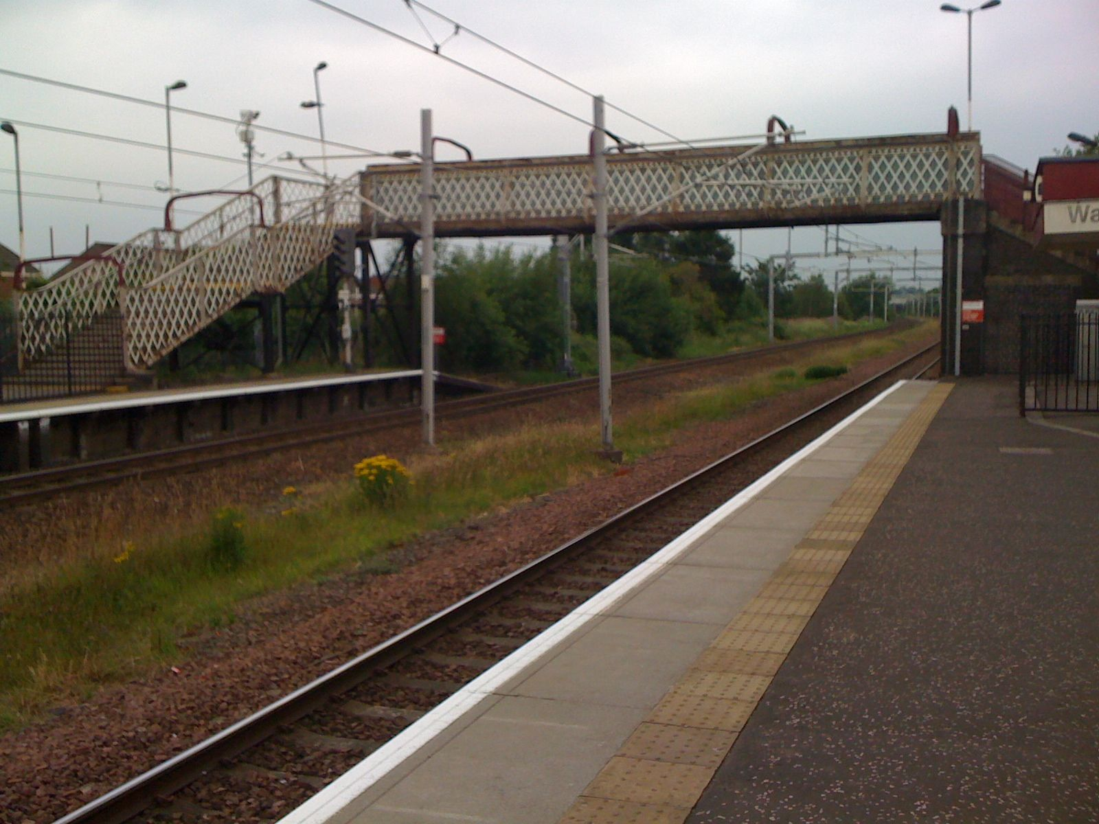 Hillington West railway station is located in the Hillington district of Glasgow, Scotland. The station is managed by First ScotRail and is on the Inverclyde Line.